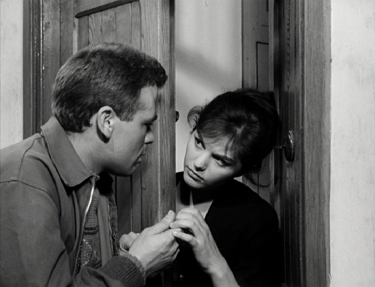 screenshot from the Italian film I soliti ignoti (1958)